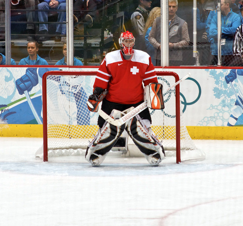 Switzerland goaltender Jonas Hiller during a break in the action against Canada during the 2010 Winter Olympics